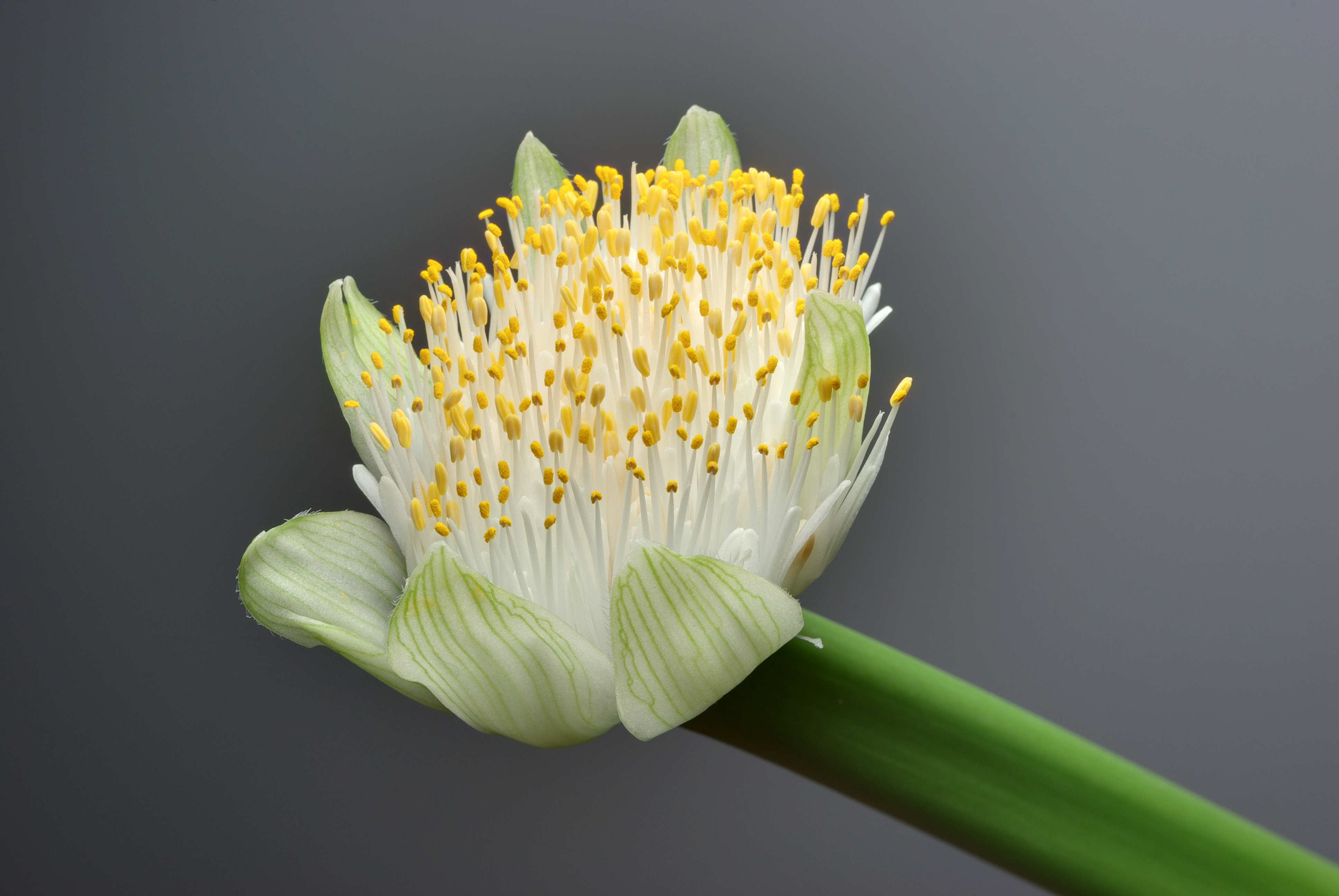 Blossom of Haemanthus albiflos